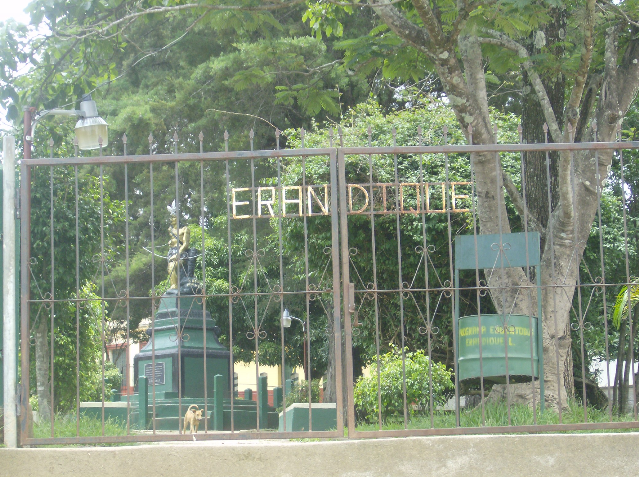 Erandique, municipality in the Honduran department of Lempira.